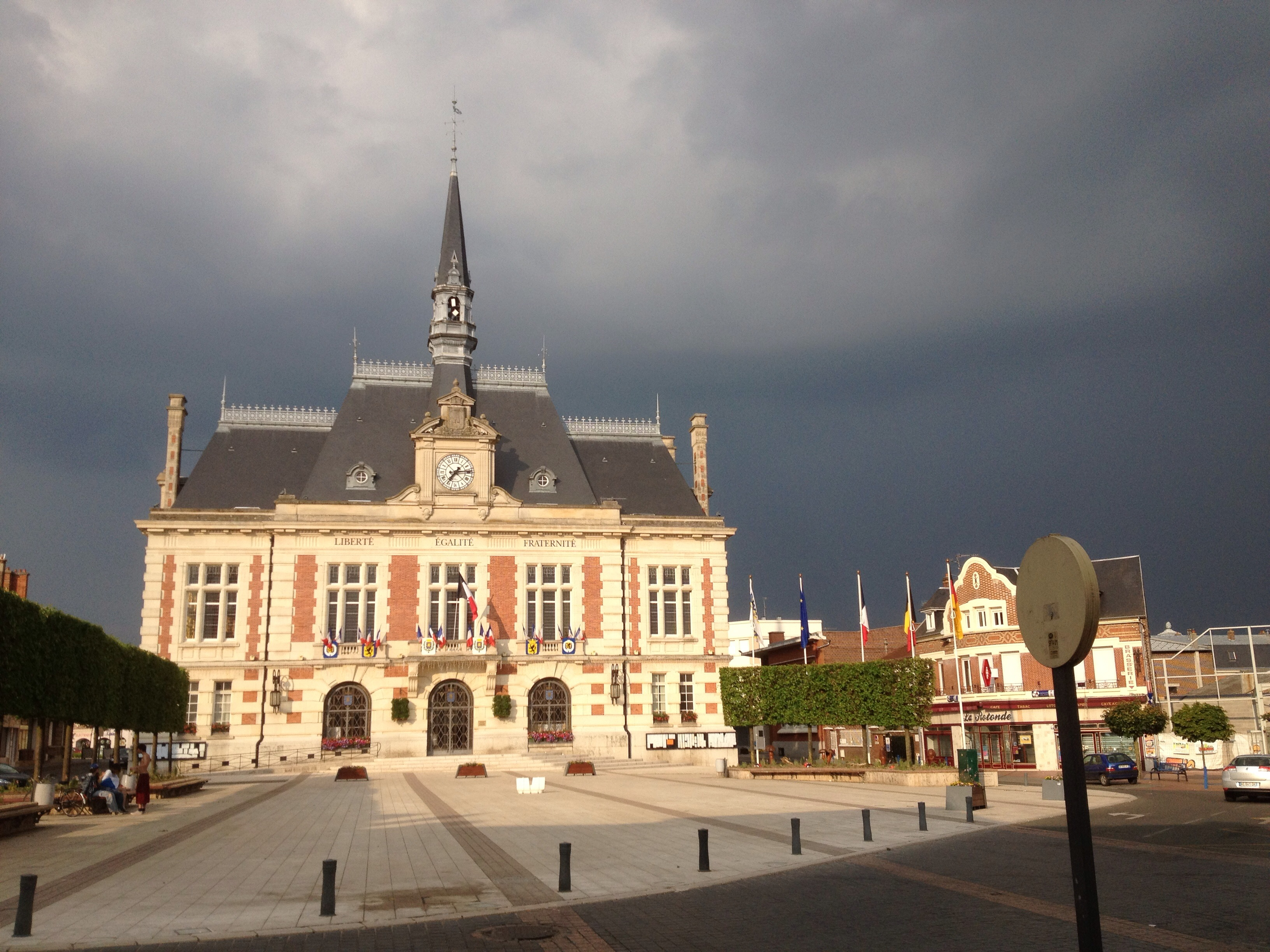 Chauny (Aisne, France) Townhall